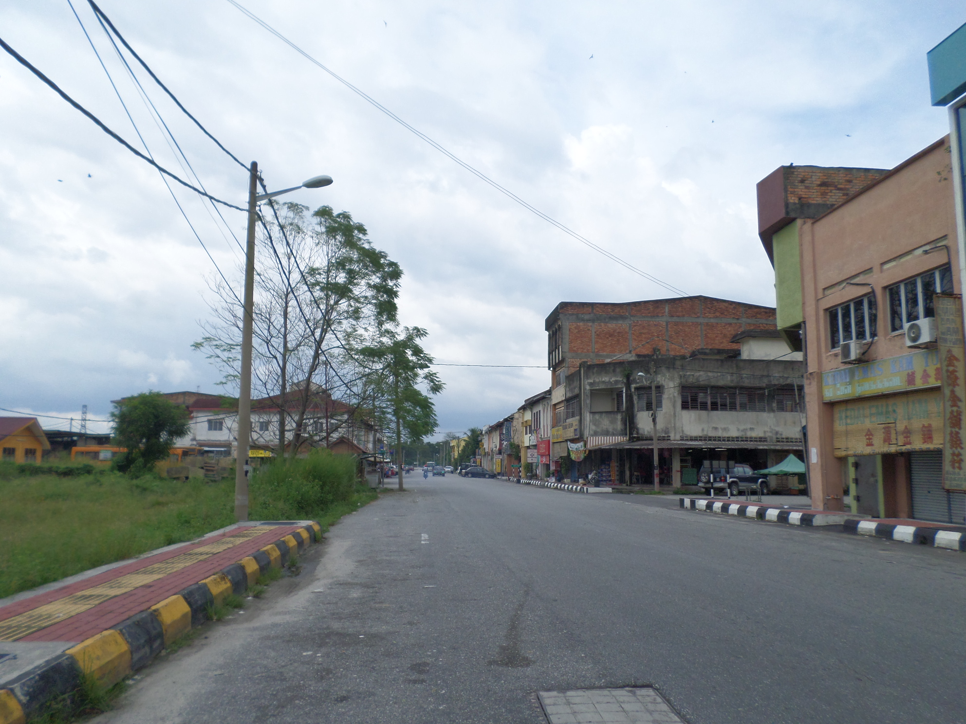 Sungkai, Batang Padang, Perak, MalaysiaBahasa Melayu: Sungkai, Batang Padang, Perak, Malaysia